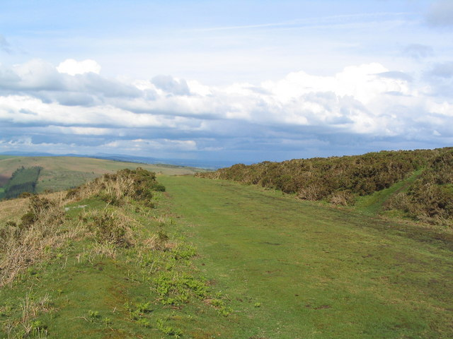 Old racecourse, Hergest Ridge Part of the old racecourse near the summit of Hergest Ridge. View east, with Bradnor Hill in the distance.